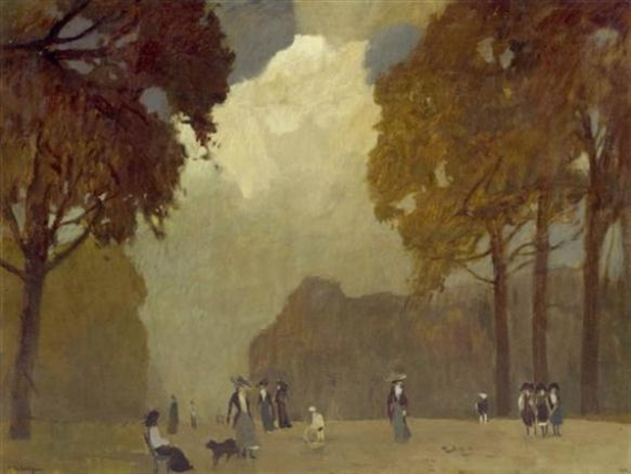 Hyde Park (1910), 73.6 x 97.7 cm, Oil on Canvas